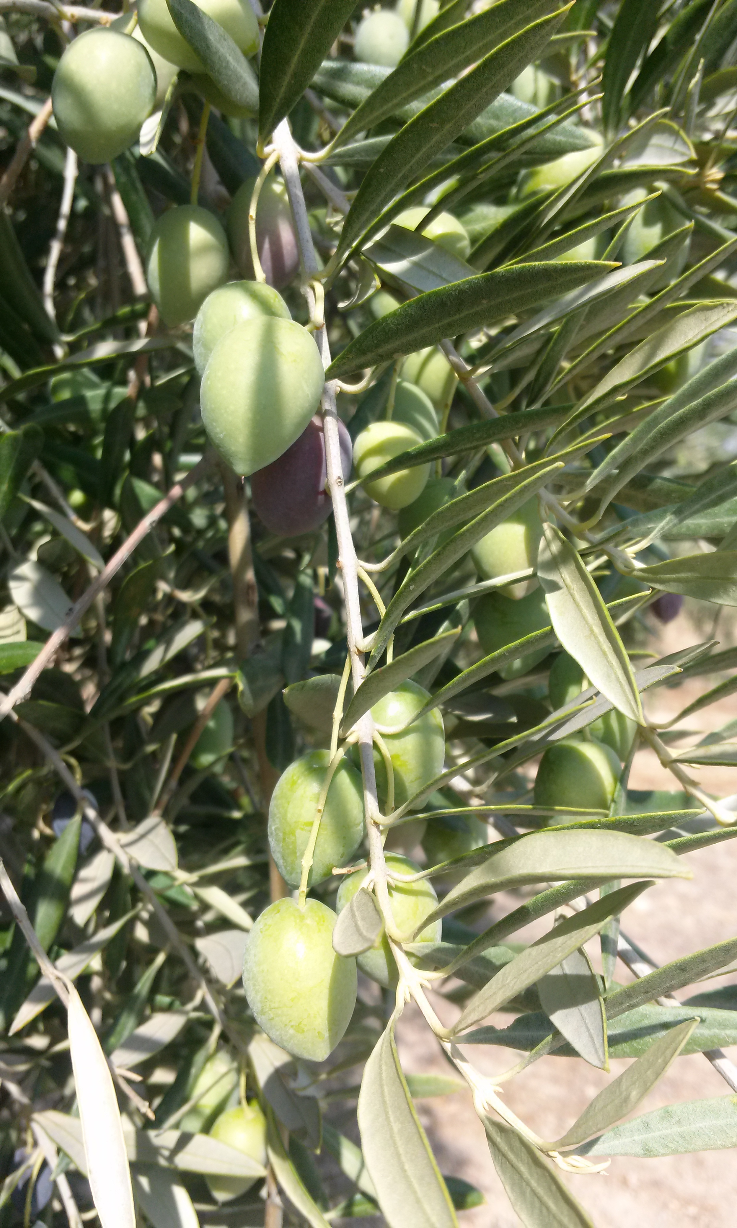 Olives of the Picual variety, from a olive tree at North of Jaén city.